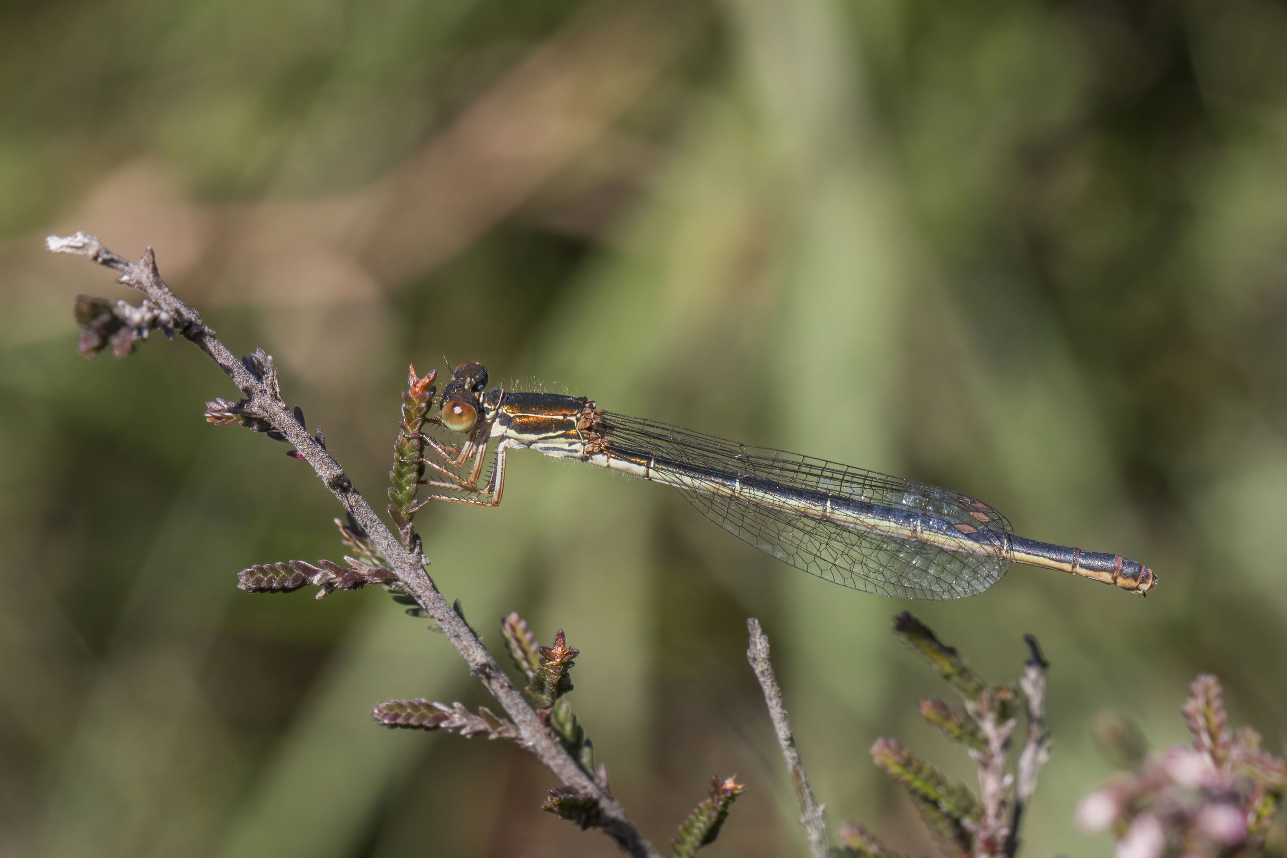 Small red damselfly (Ceriagrion tenellum) female form melanogastrum, Crockford Stream, Hampshire